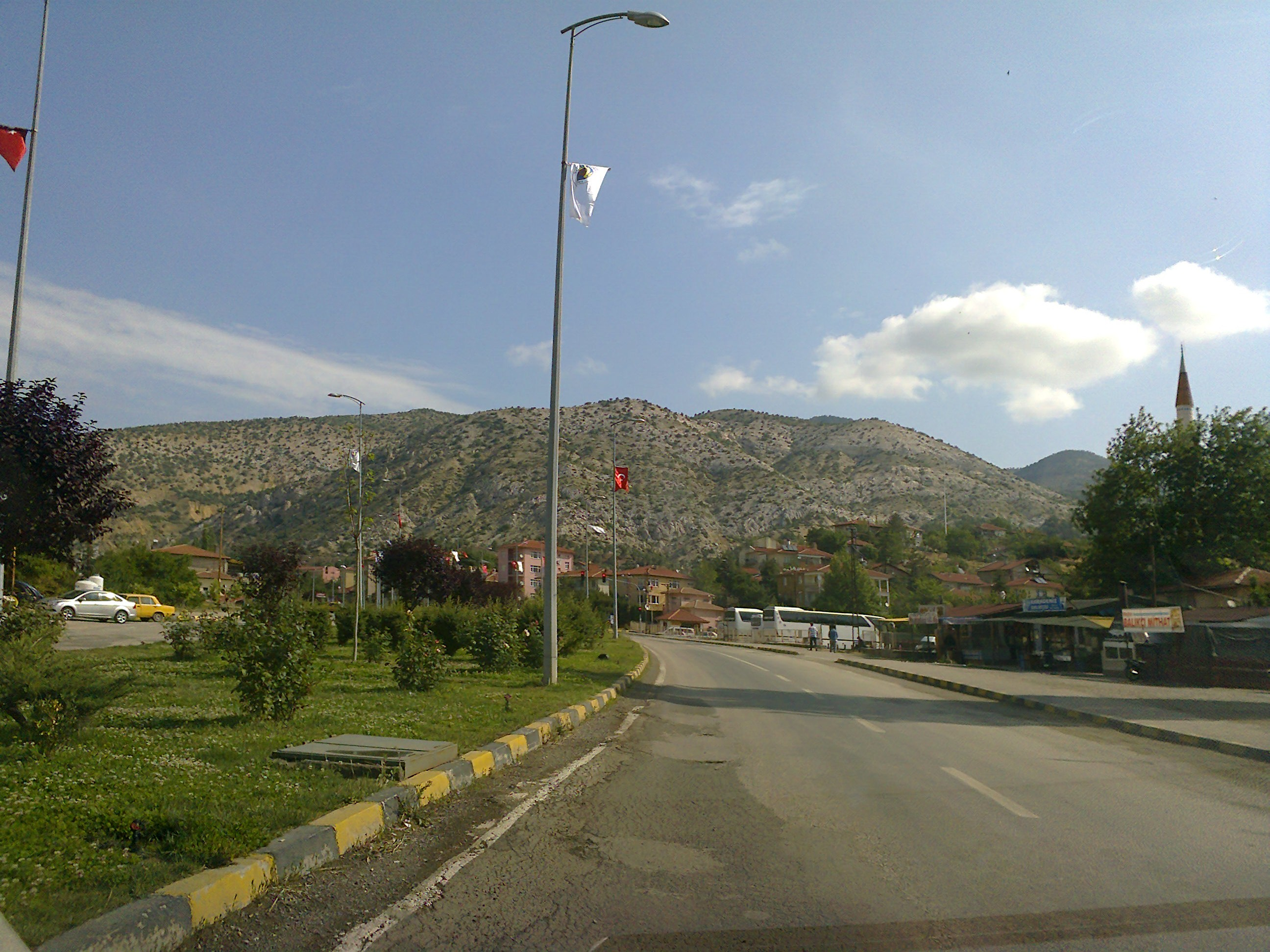 Main street, Nallıhan (Ankara, Turkey)